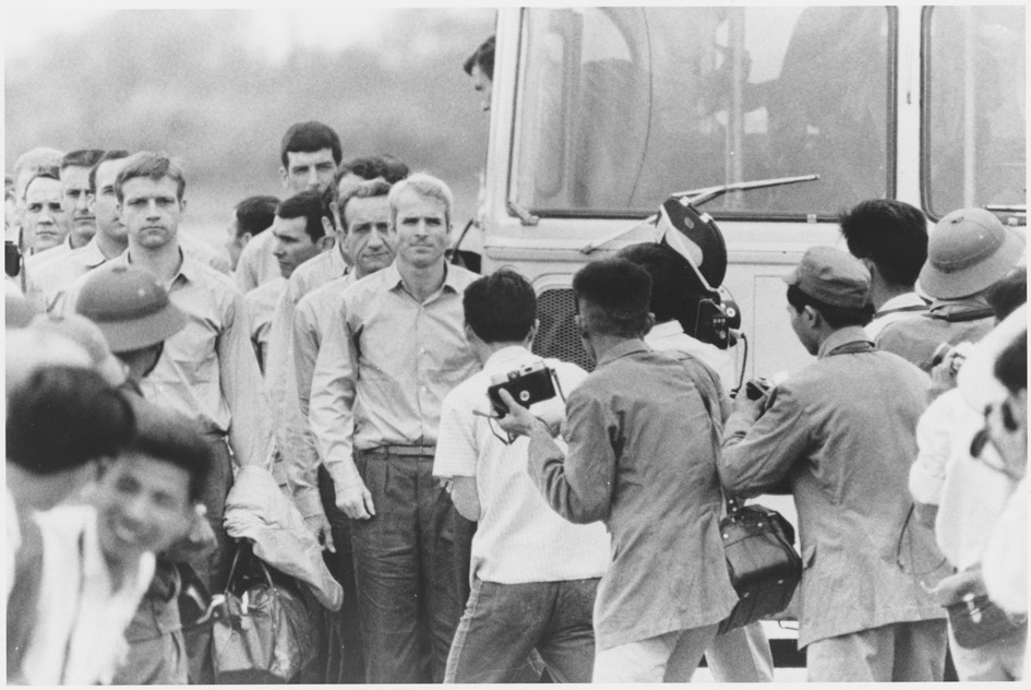 Photograph of John McCain After Being Released as Prisoner of War. National archives data: ARC Identifier 1633553 / Local Identifier 428-N-1155665